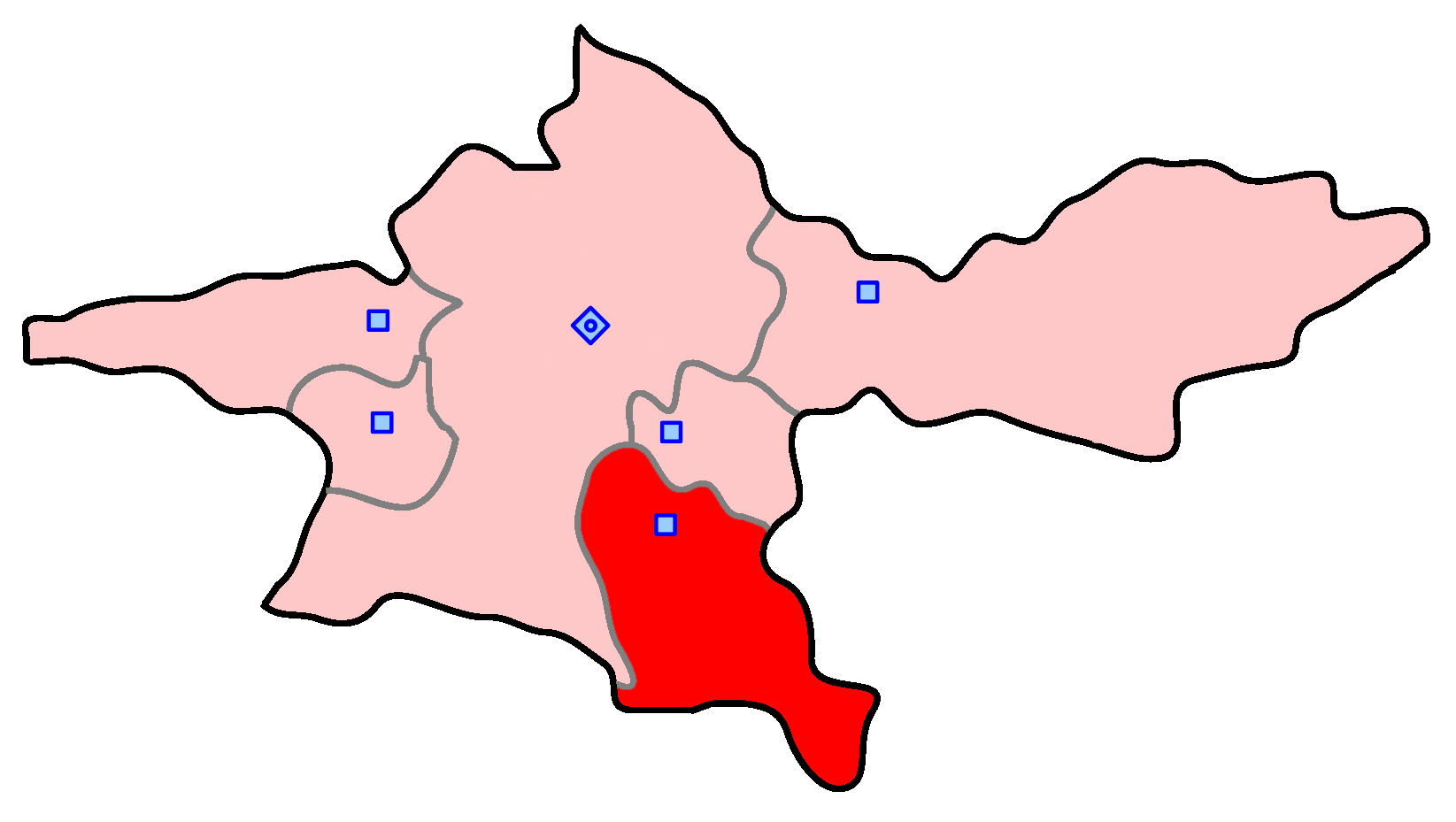 map of Varamin electoral district, Tehran Province, Iran